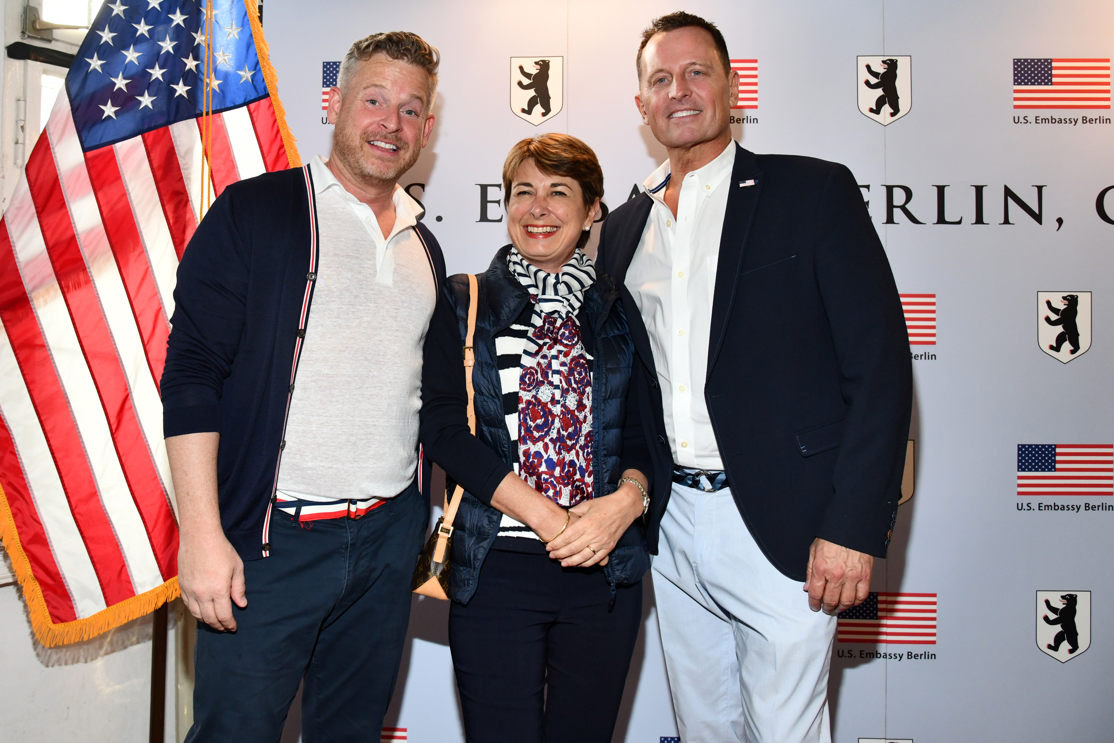 Matt Lashey, Isabelle Berro-Amadeï, and Richard Grenell, 4th of July 2019 in Berlin